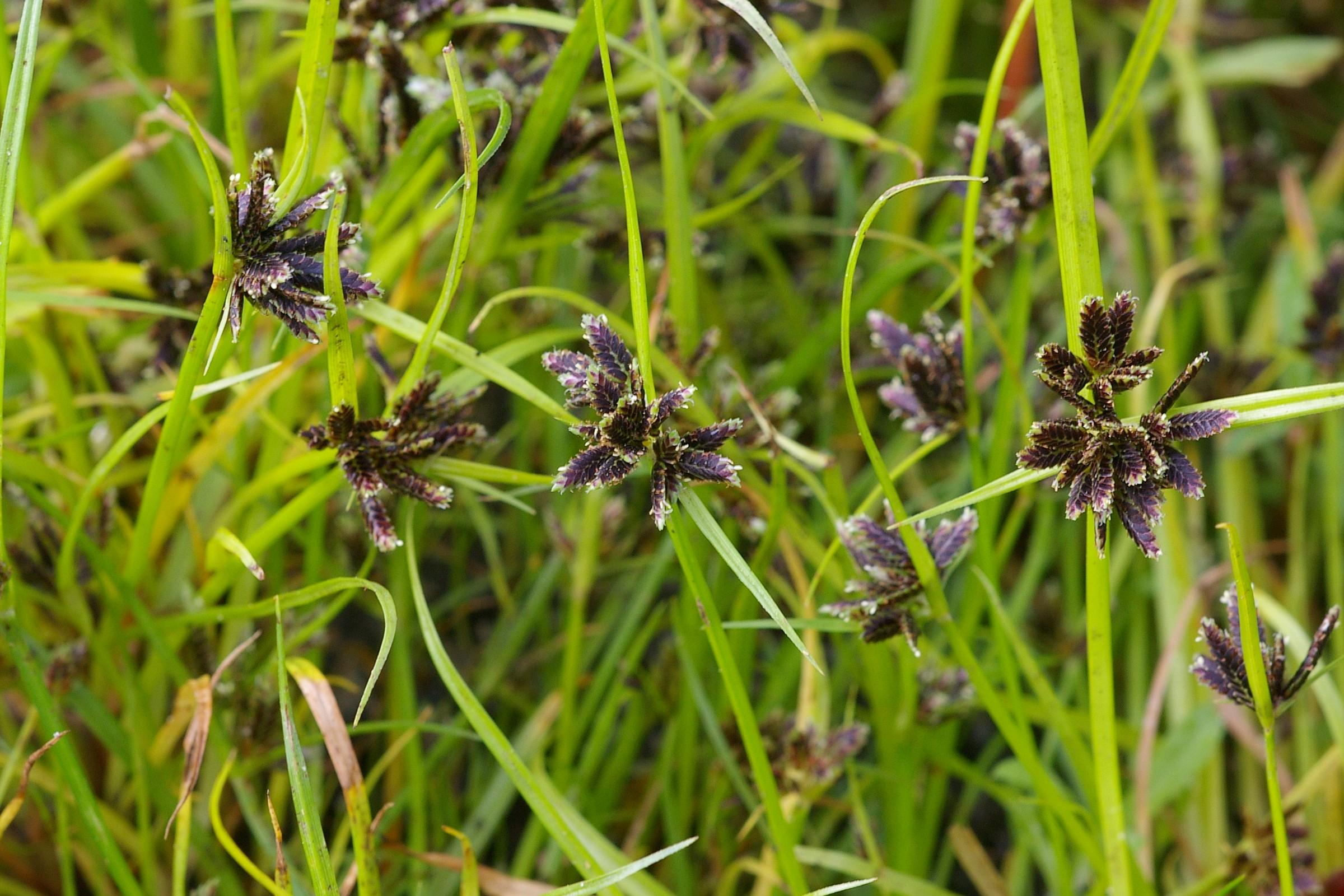 Close-up of Cyperus fuscus at the wet banks of a pond.